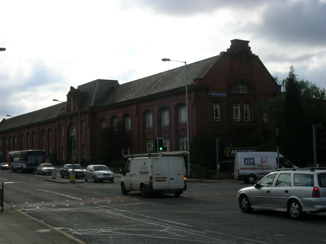 Crumbs! The McVities factory on Wellington Road North, Stockport. This road is the A6 and to the right of this point lies in Manchester and is known as Stockport Road. SJ87879321.